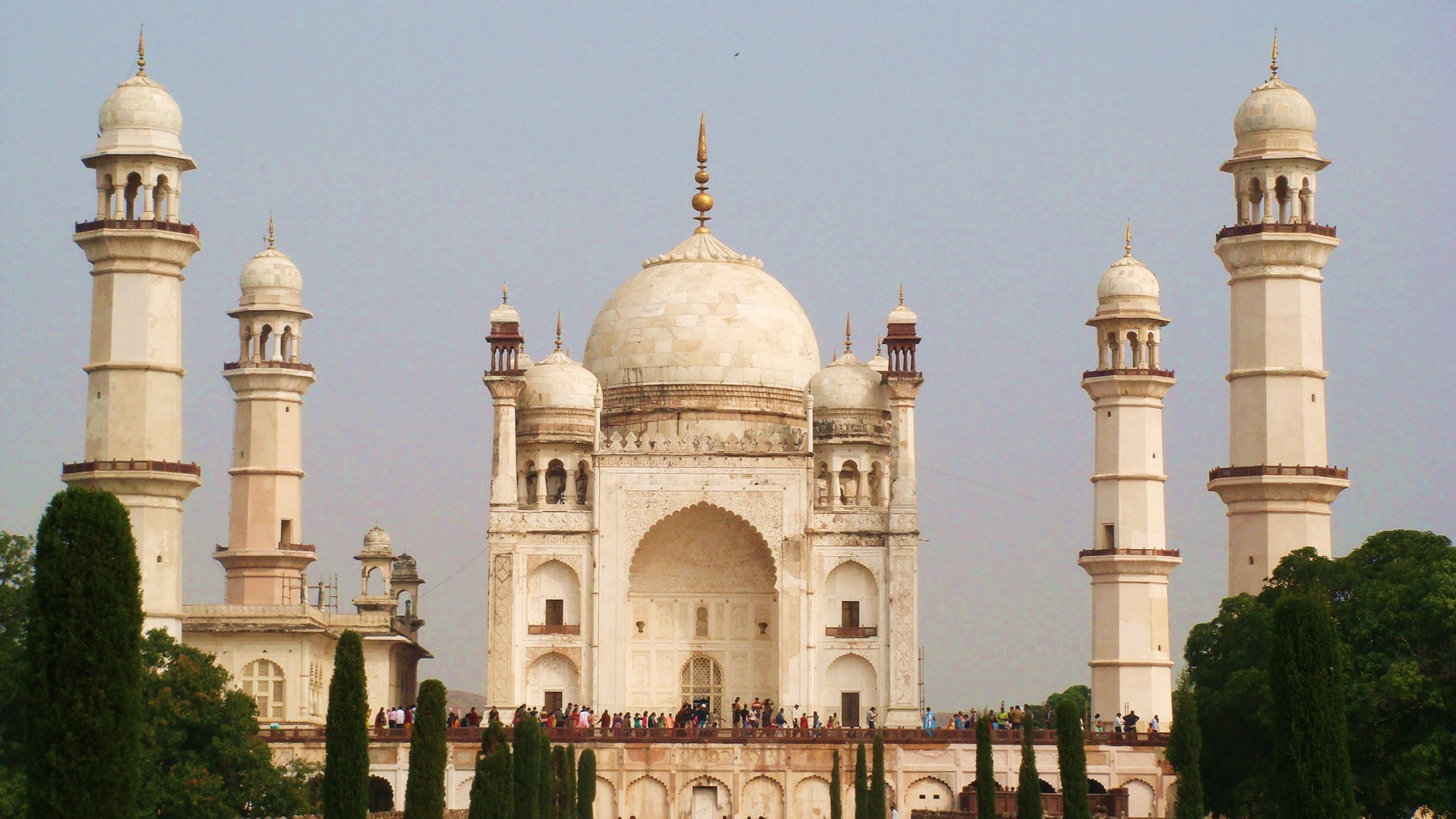 Built by Mughal Prince Azam Shah as a loving tribute to his mother, Rabia Durrani (the first wife of the Mughal Emperor Aurangzeb)